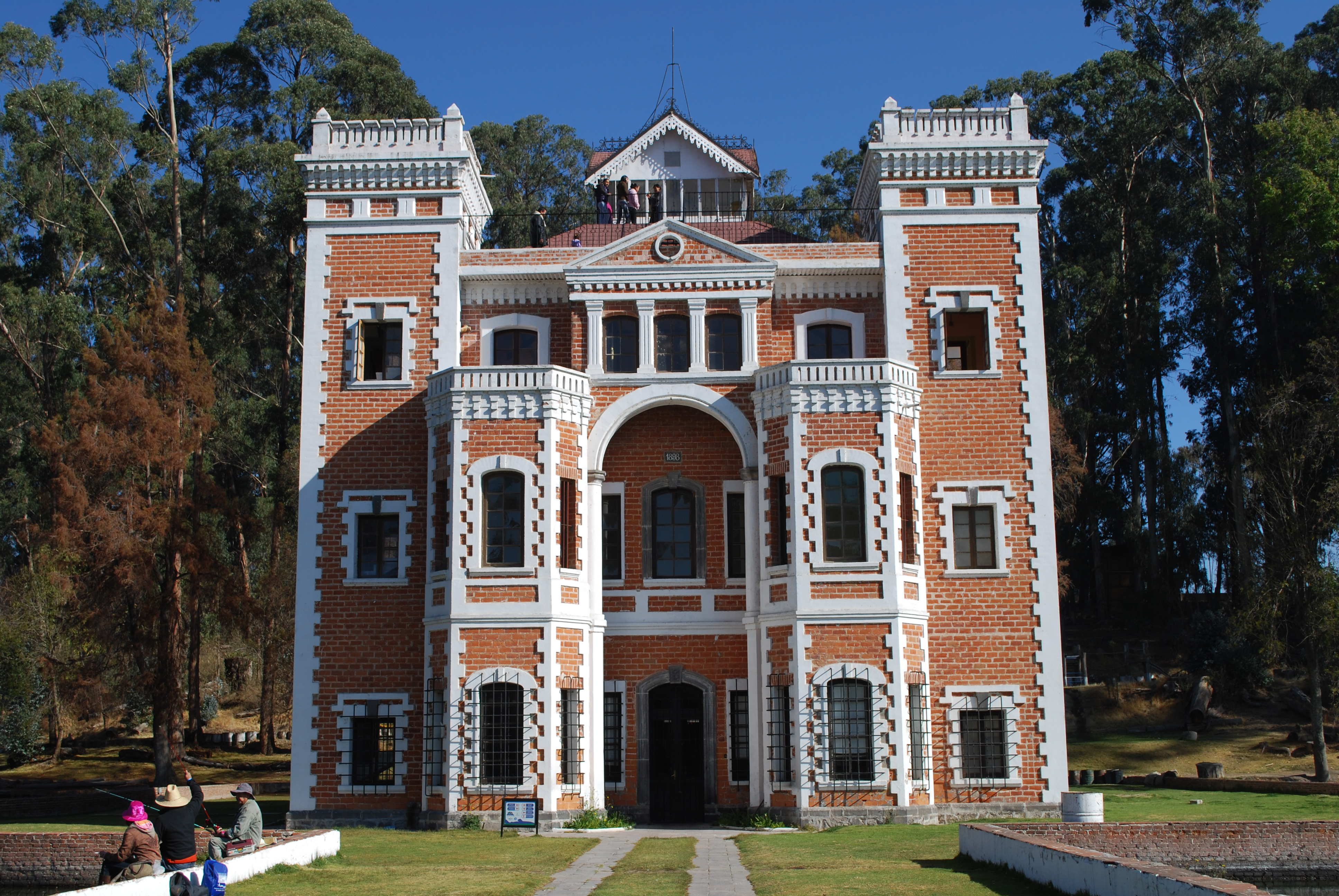 English style residence hall at the Chautla Hacienda in San Salvador el Verde, Puebla, Mexico